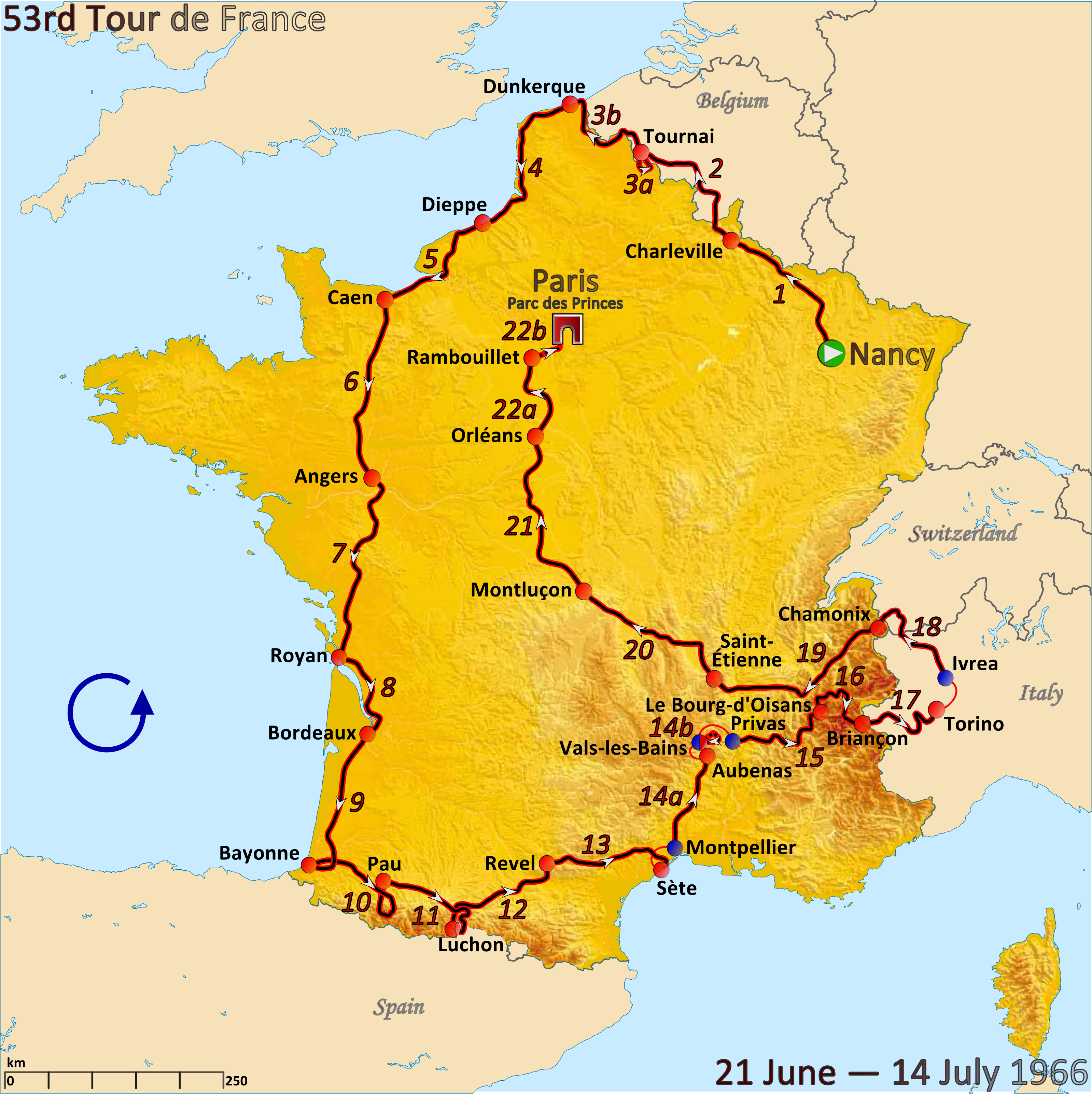 Map of the 1966 Tour de France created in Inkscape